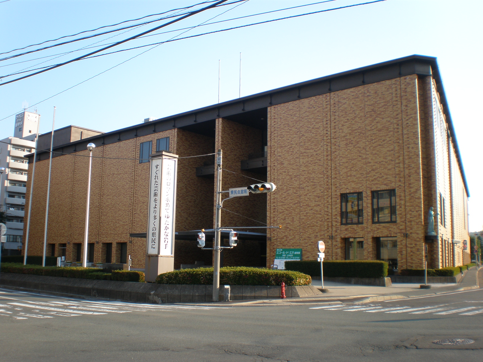 Iwate Prefectural Hall